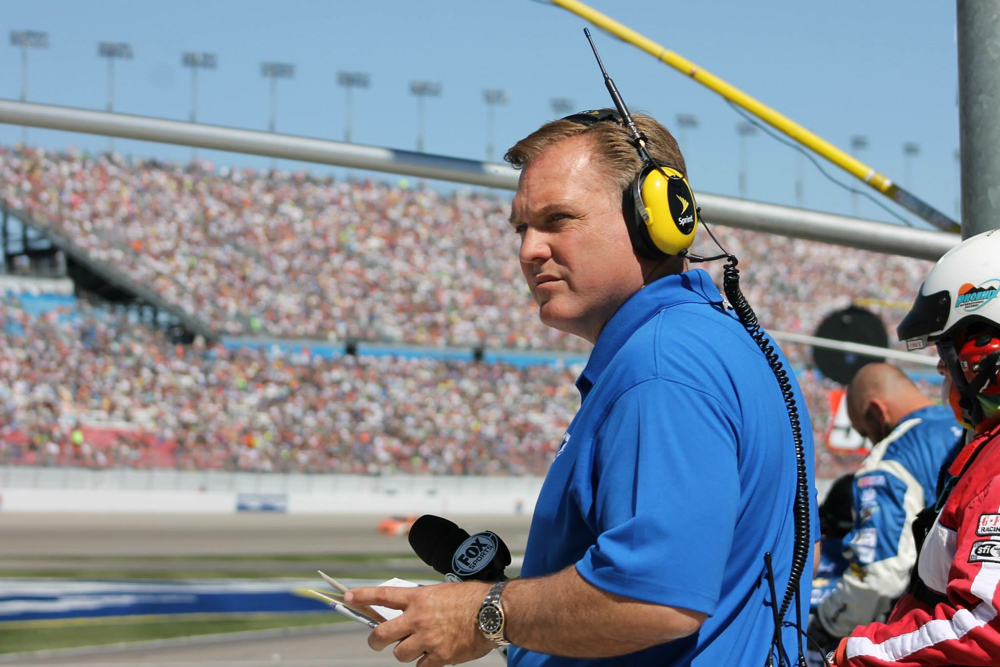 Matt Yocum at Las Vegas Motor Speedway Photo Credit